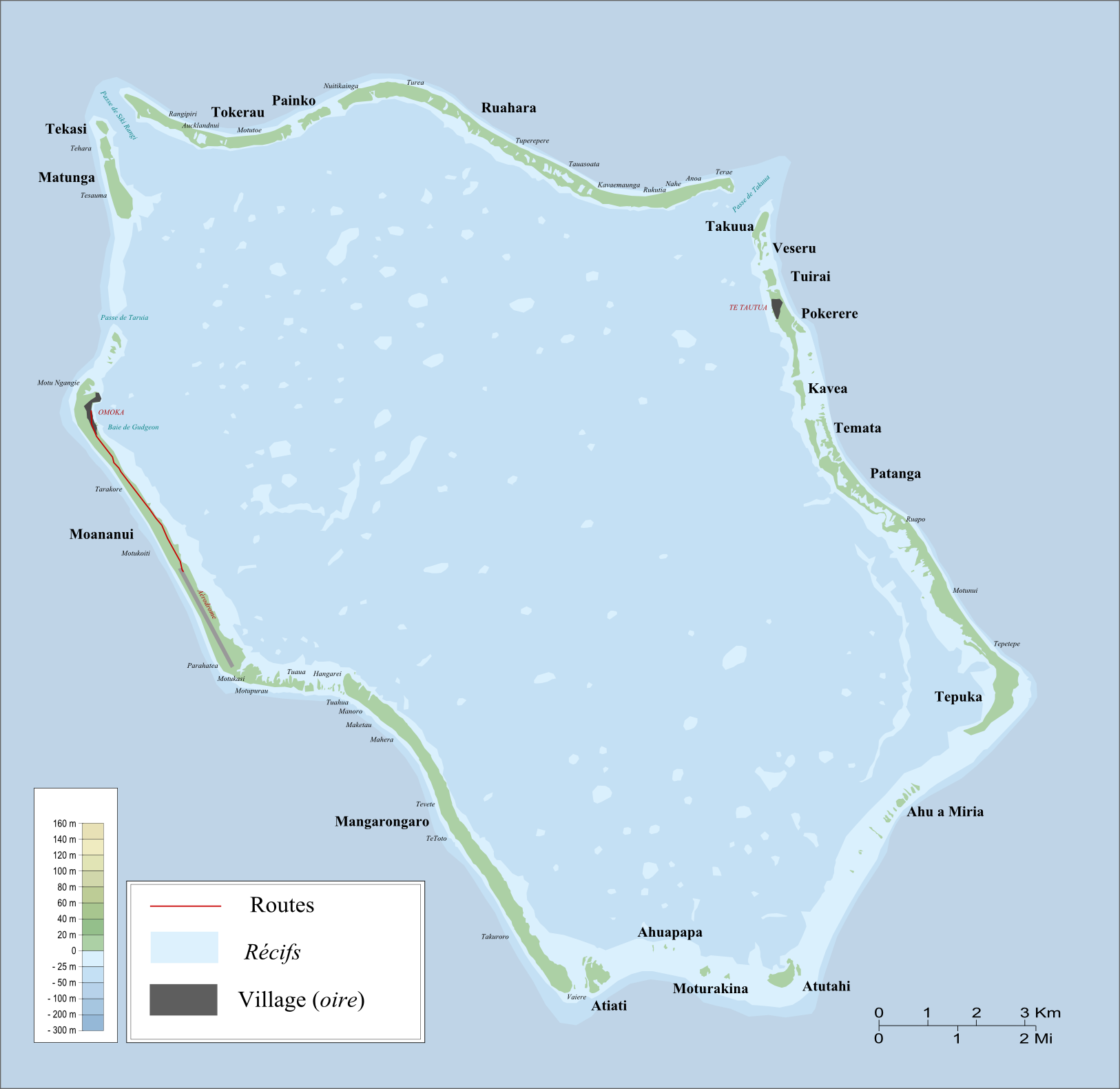 Carte de Penrhyn (Tongareva) - îles Cook/Map of Penrhyn (Tongareva) -Cook Islands